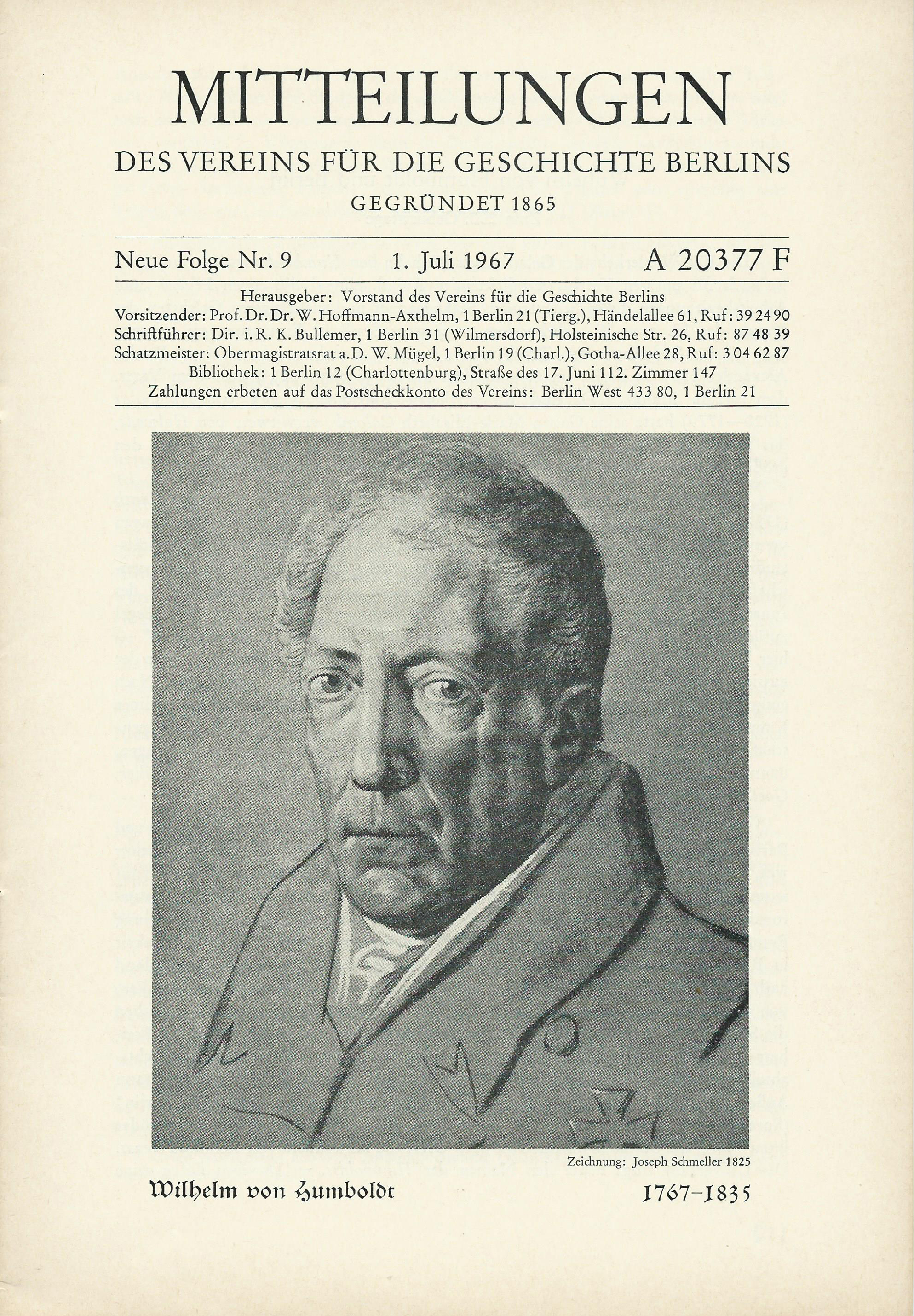 Cover of Mitteilungen des Vereins für die Geschichte Berlins. First issue showing an image on the cover from 1967 (New period, No. 9)